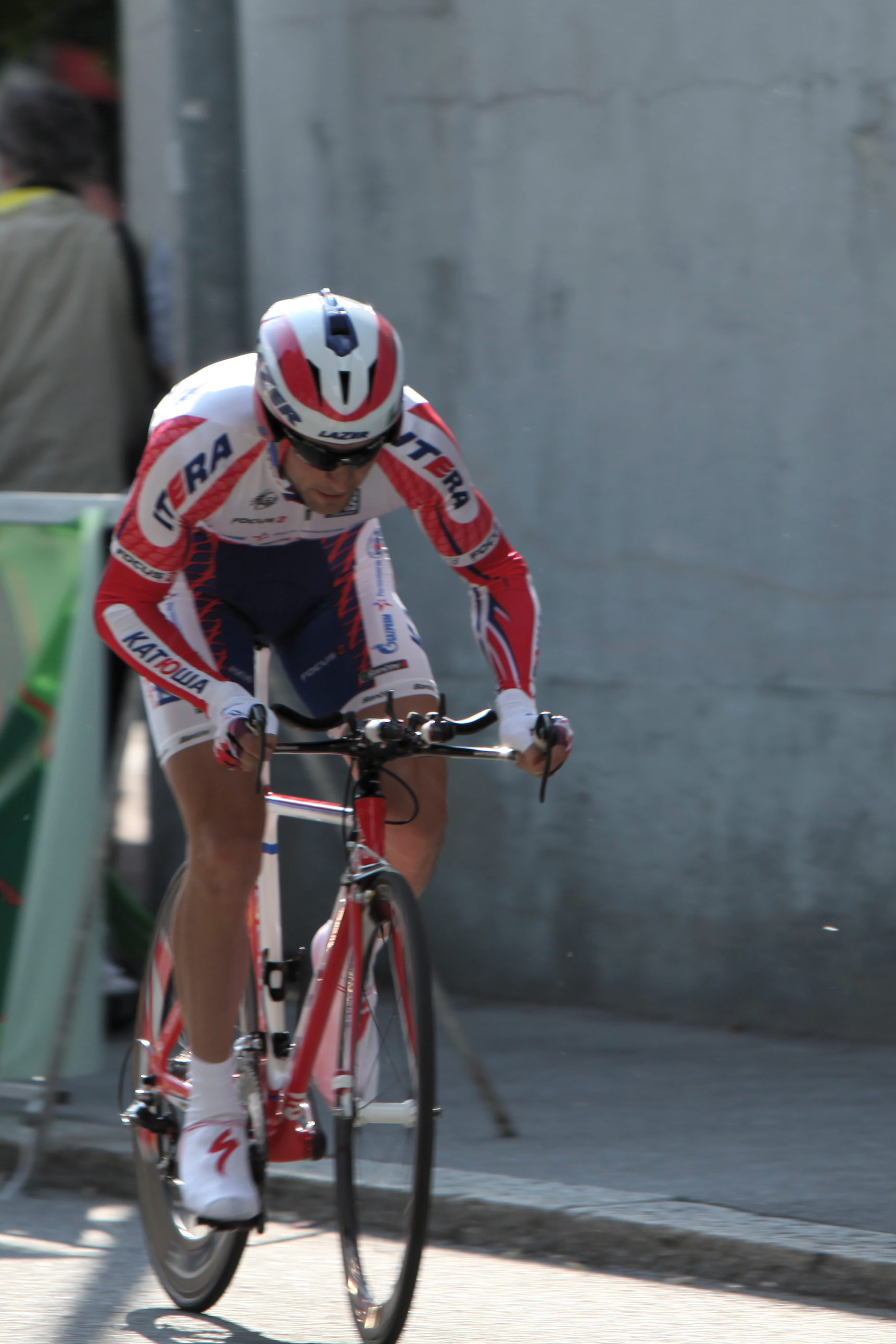 Aleksandr Kuschynski at the prologue of the Tour de Romandie 2011